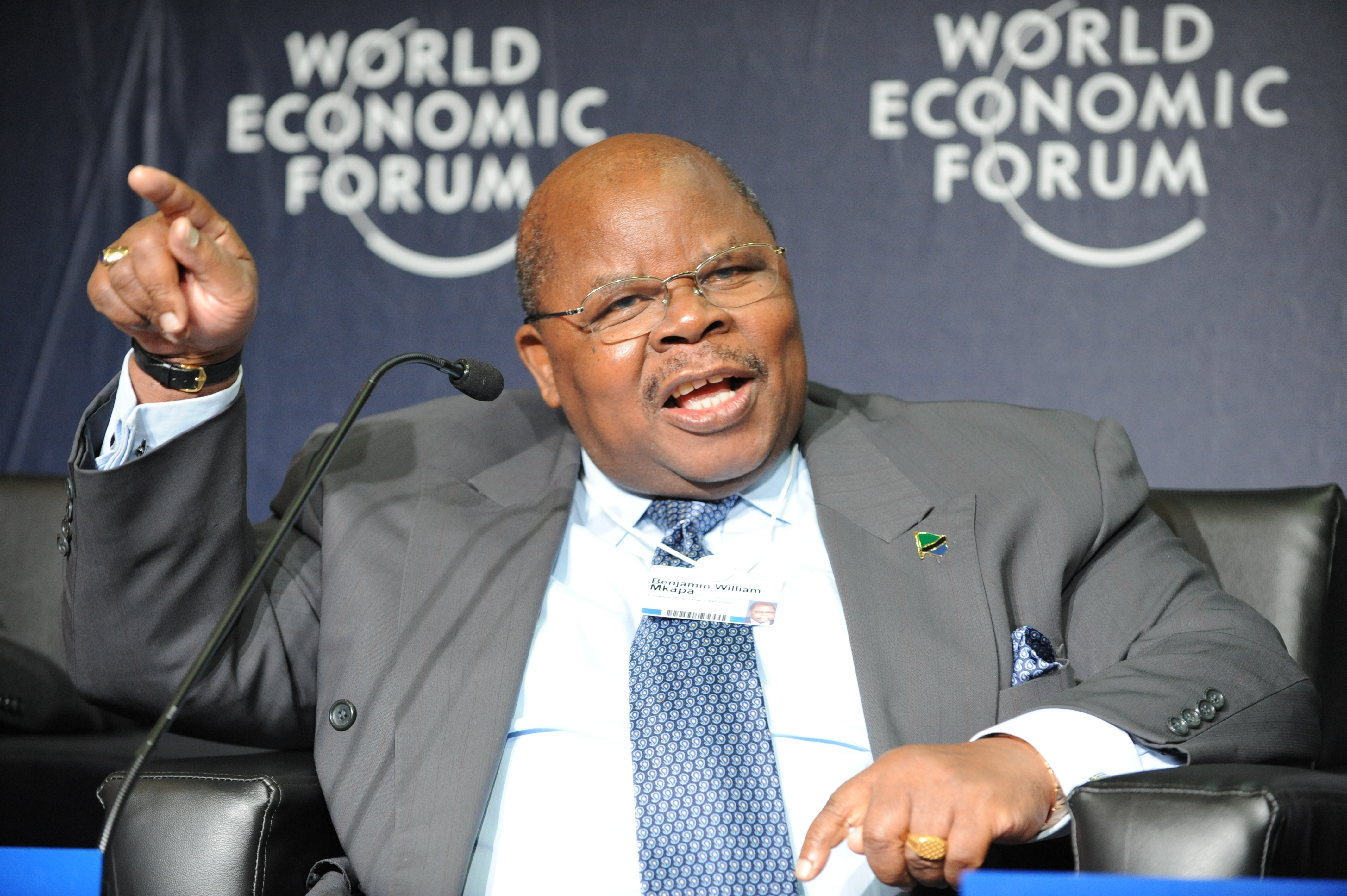 Benjamin William Mkapa, third President of Tanzania, during World Economic Forum on Africa 2010.